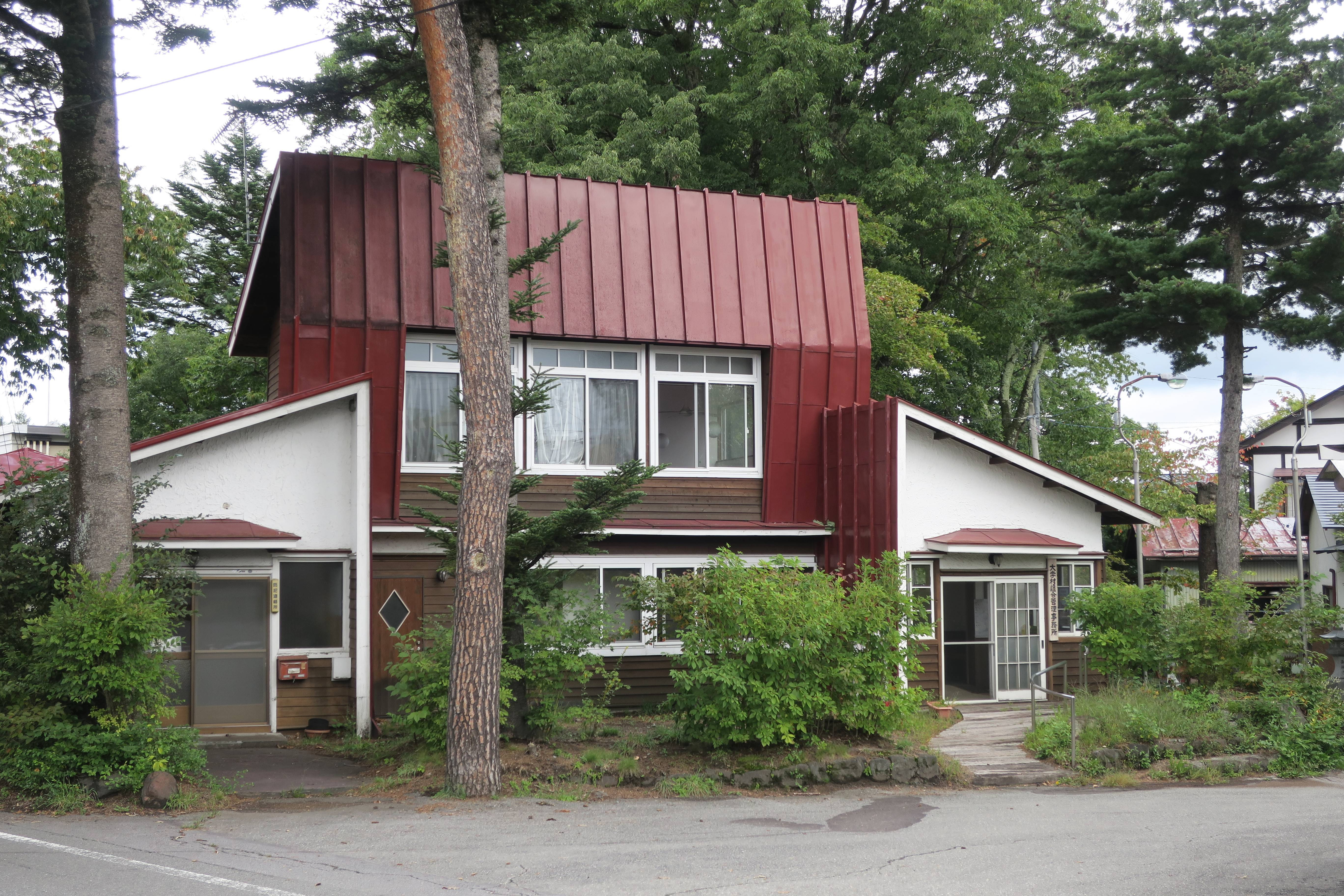 Kitakaruizawa Daigaku Village office (Naganohara, Gunma).